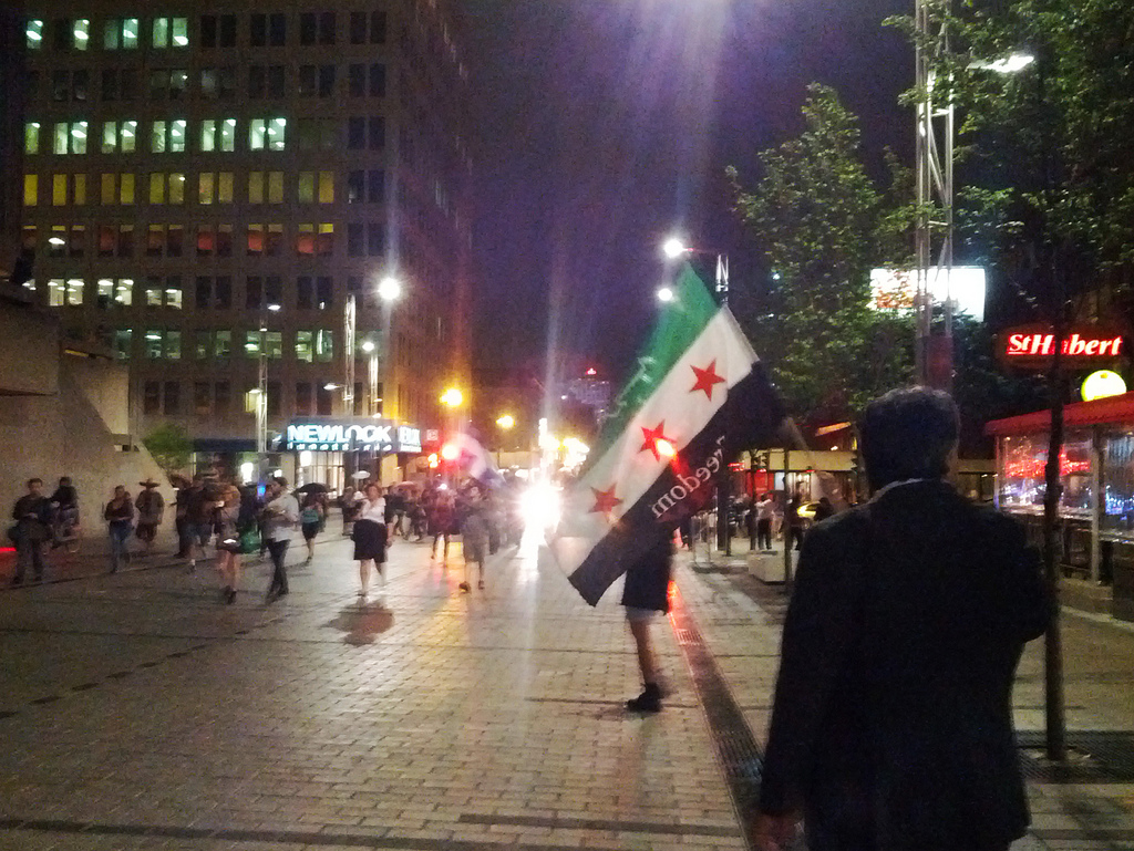 Syrian protester waving flag of Syria with "Freedom" written on it while watching protesters marching against Bill 78 in Montreal, Canada, on 27 May 2012 demonstration. Photo taken on Ste. Catherine St. W near Place des Arts.